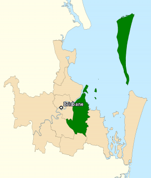 This image incorporates data that is: © Commonwealth of Australia (Australian Electoral Commission) 2009 Division of Bonner 2010